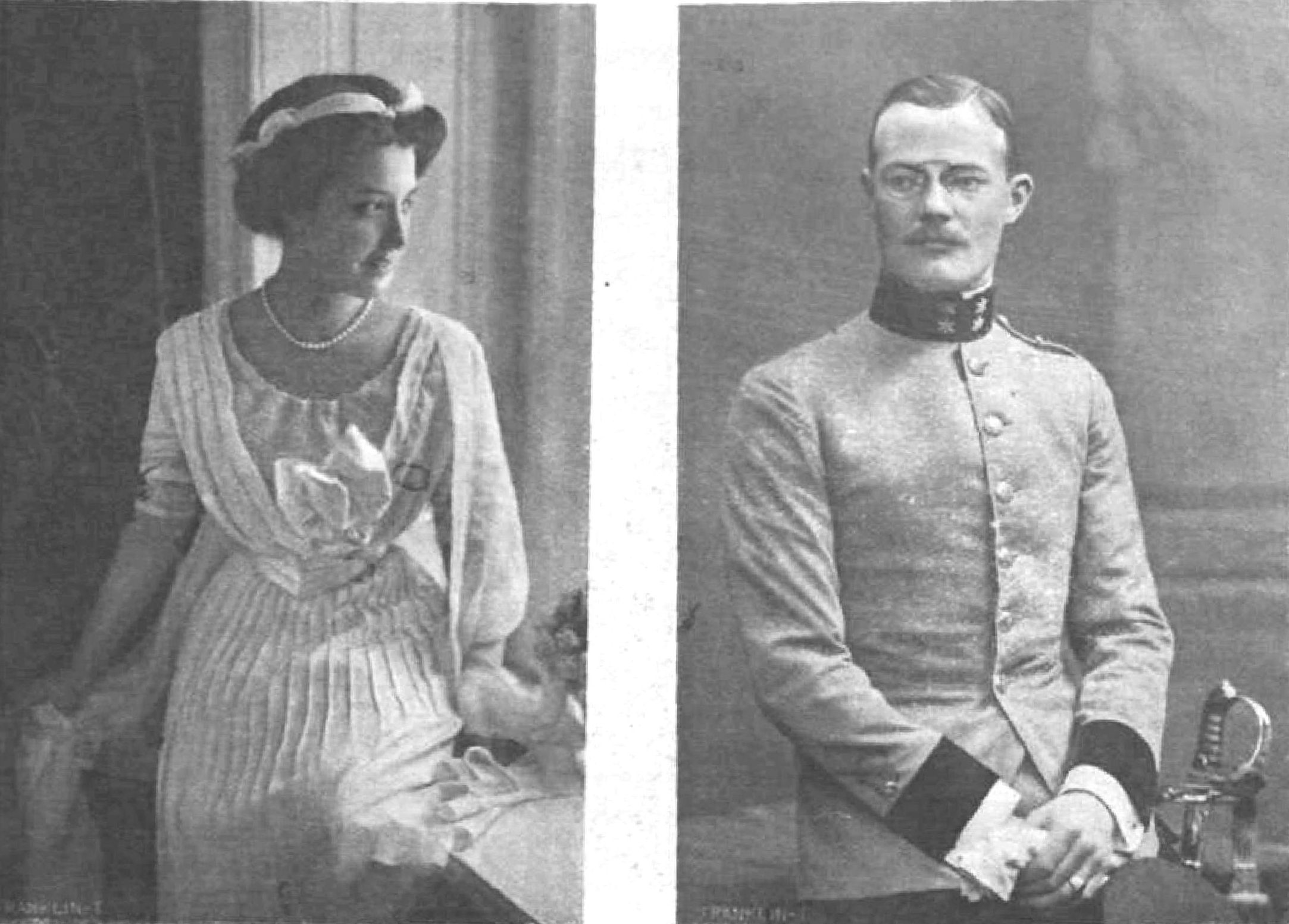 Archduchess Elisabeth Franziska, Princess of Tuscany and her husband